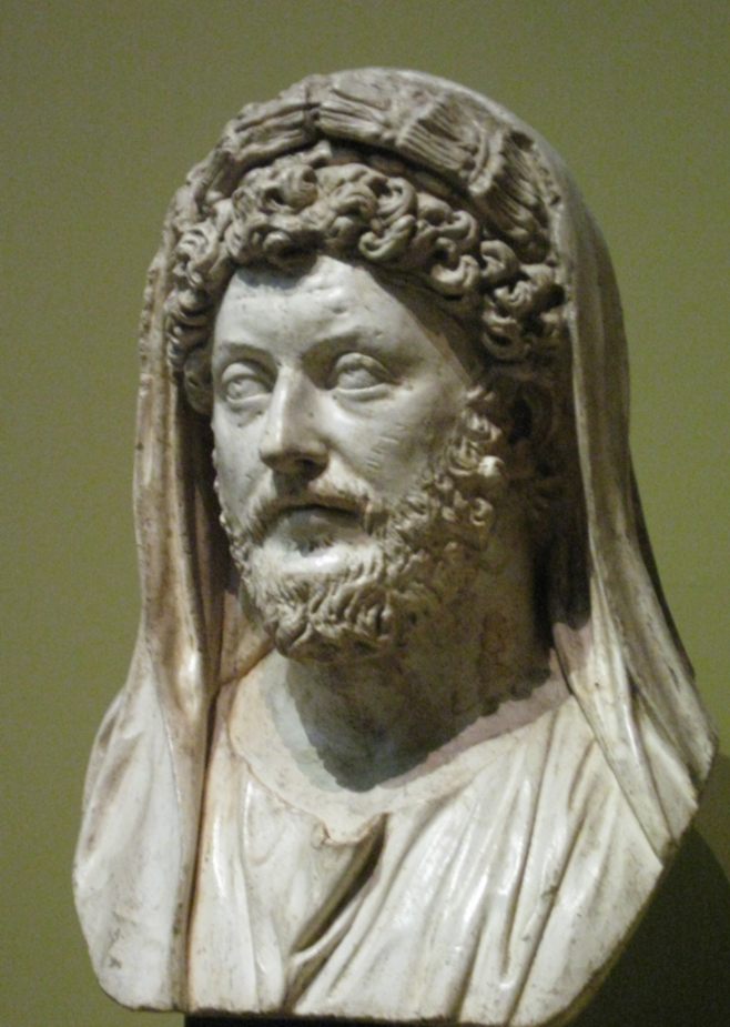 Marcus Aurelius. Cast in Pushkin museum after original in British museum